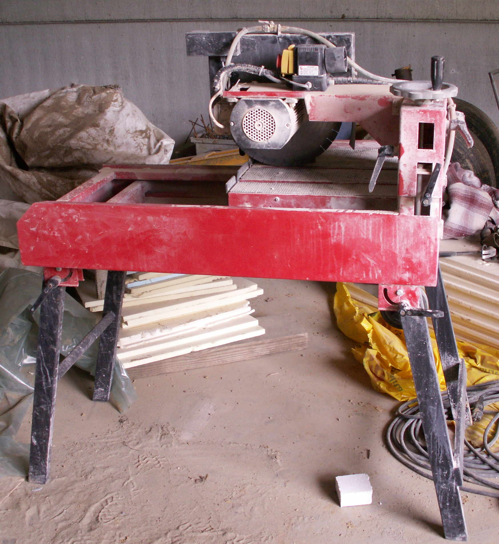 A picture of a wet tile saw.